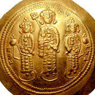 ROMANUS IV. 1067-1071 AD. AV Histamenon Nomisma (27mm, 4.32 gm). Constantinople mint. Michael standing facing, holding labarum and akakia, flanked by Constantius and Andronicus, each holding globus cruciger and akakia, standing on footstools. DOC III 1.9; SB 1859. EF.